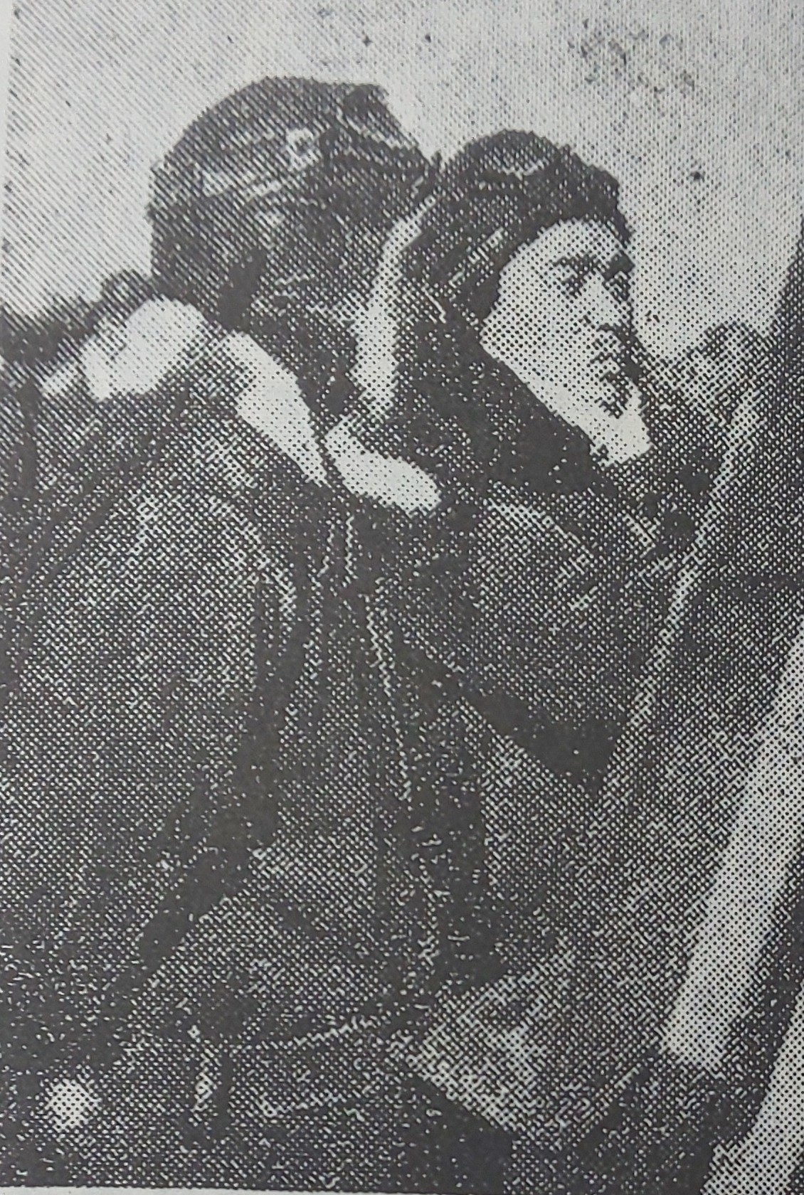 Sachio endo briefing Before a sortie